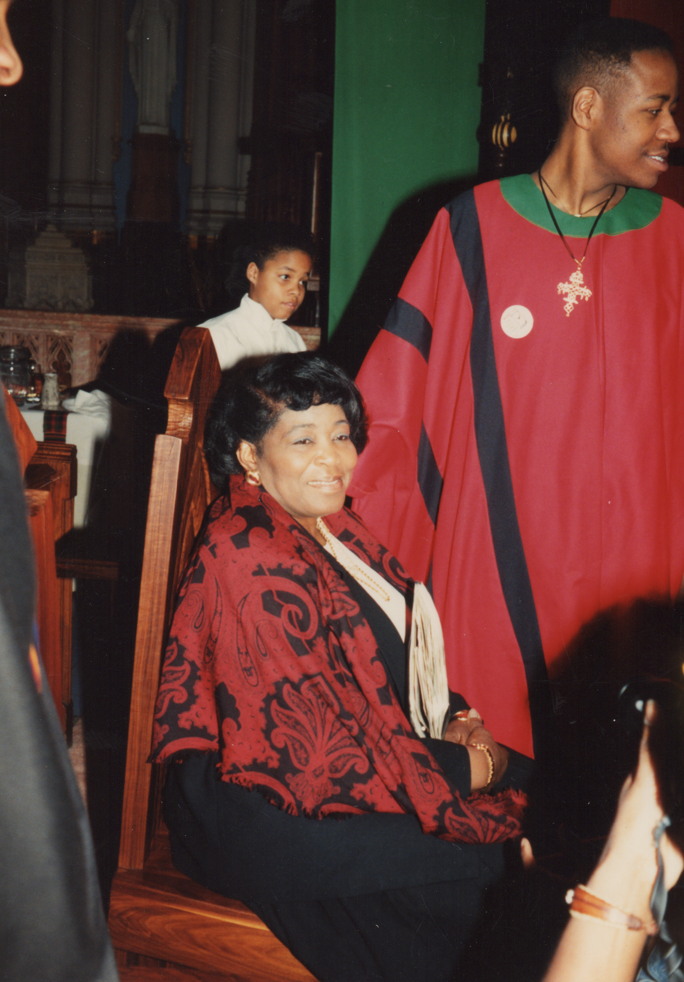 Photograph: Betty Shabazz at St. Sabina